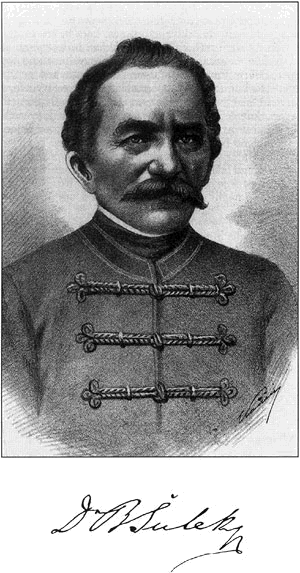 Photo of Bogoslav Šulek